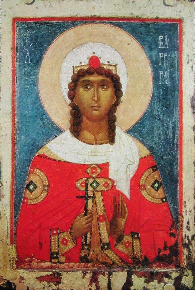 Icon of St. Barbara